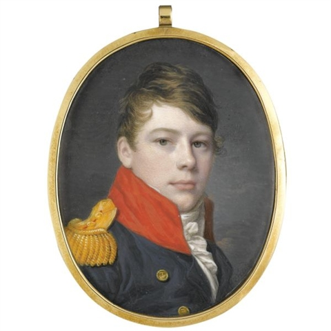 Portrait of a young officer wearing a blue uniform with a high red collar and gold lace; Sold at Sotheby's London: Wednesday, April 16, 2008 [Lot 115]